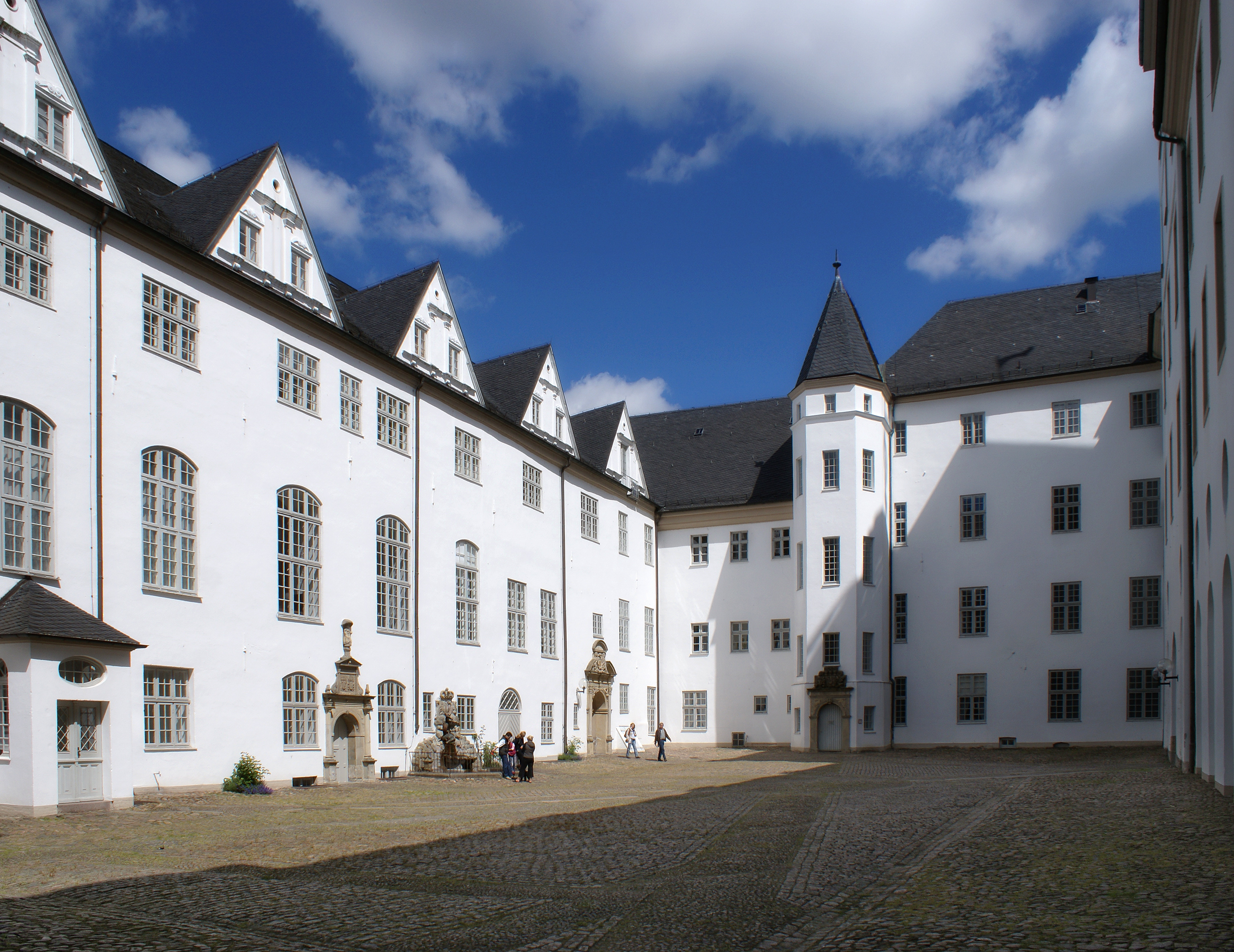 Gottorf Castle, Coutyard, North- and Eastwing, edited by Lichtbildner